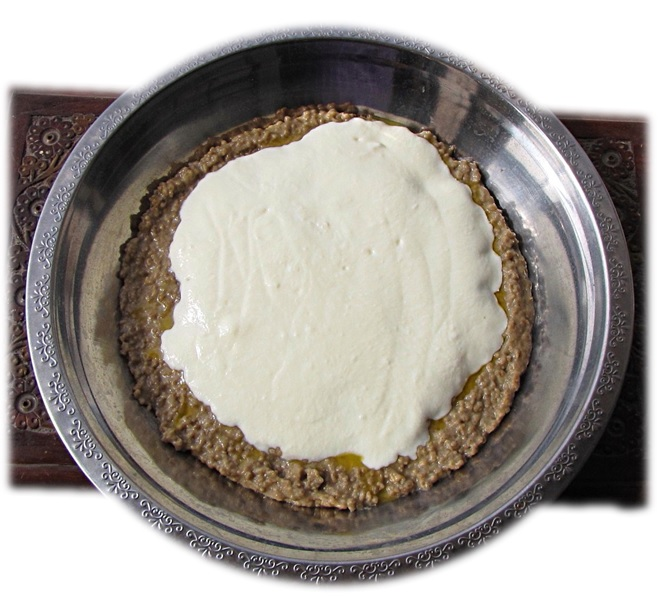 Lakh millet flour porridge as customarily served in a large communal platter, Senegal. A traditional and widely popular thick porridge made from boiled, large size araw/arraw (pellets rolled from millet flour or 'soungouf' in Wolof); shown topped just before serving with sweetened fermented milk. (Wolof language in Senegal, but names vary between regional West African languages.) This is an image of food from Senegal